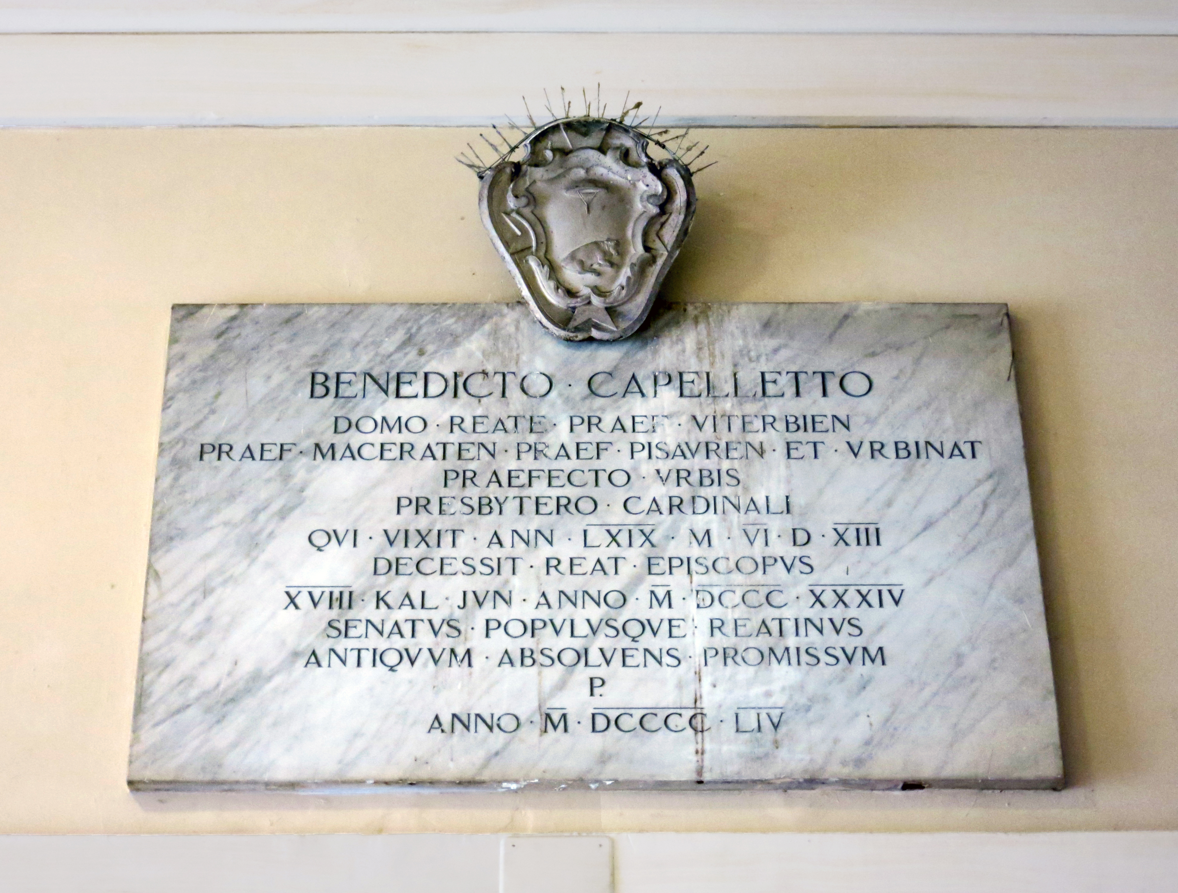 Inscription placed in 1954 in memory of bishop Benedetto Cappelletti (1764-1834), walled in the portico of the Municipal Palace in Rieti (central Italy)